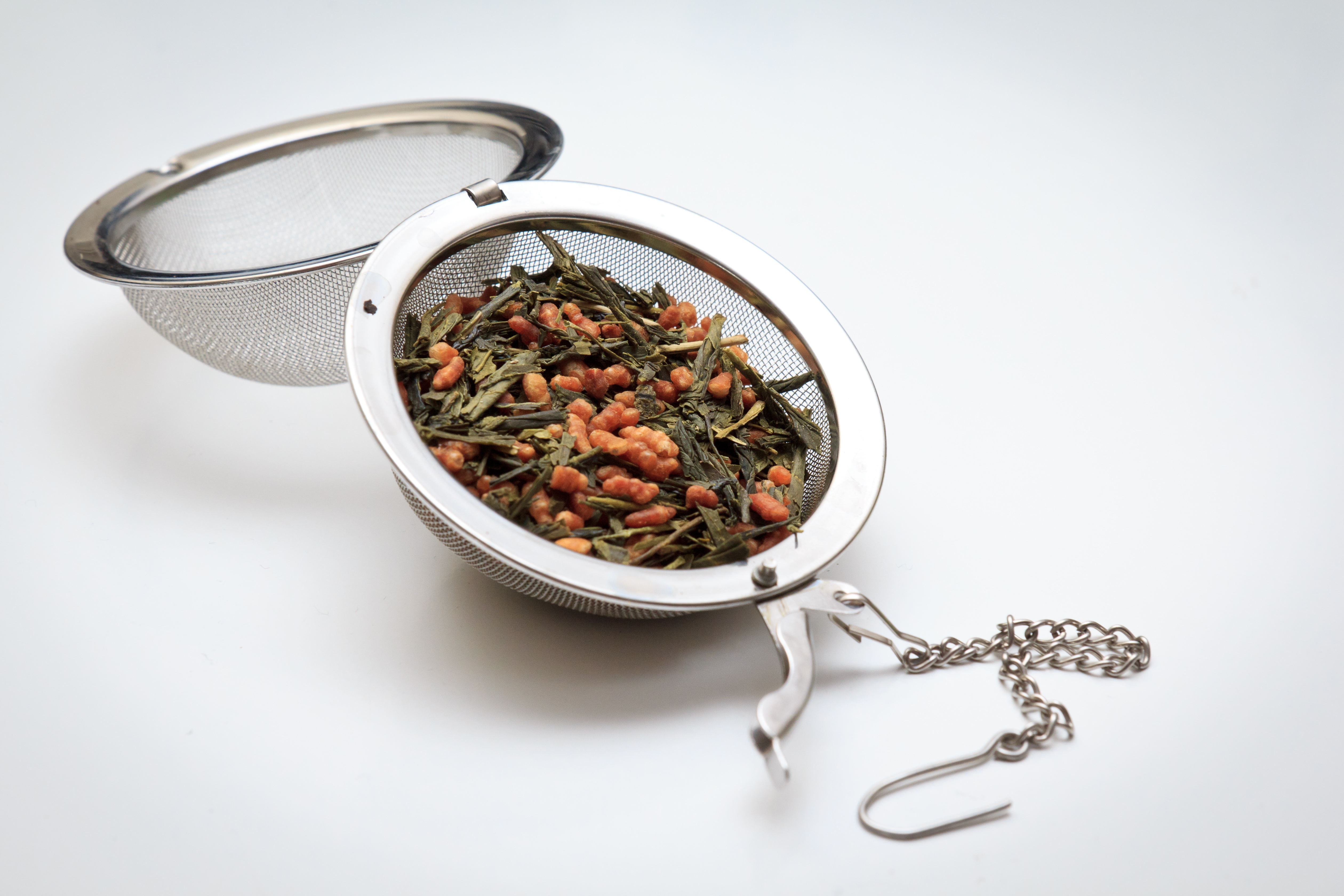 Genmaicha tea, produced by Yamamotoyama of America, in a tea infuser, as yet un-steeped.